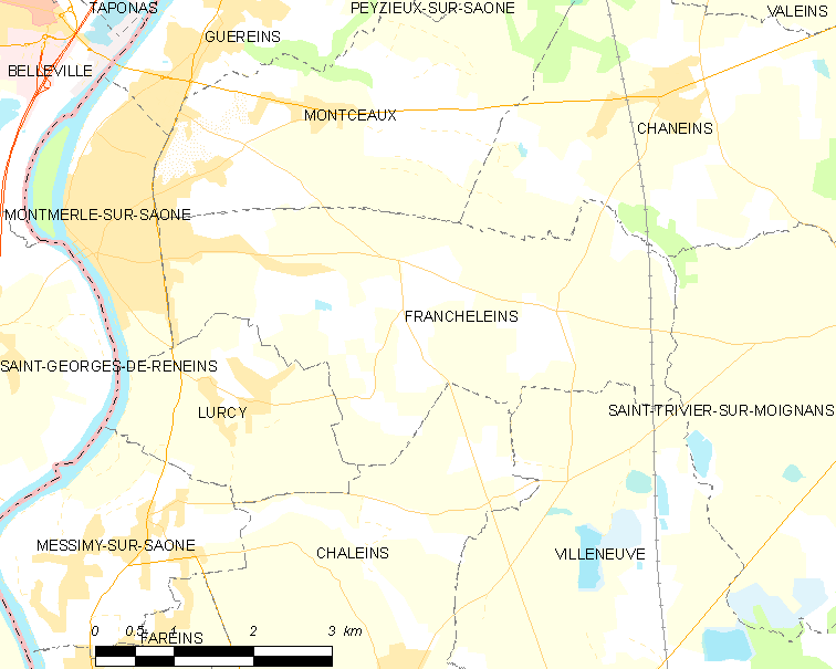 Map of French commune: Francheleins Map commune FR insee code 01165.png